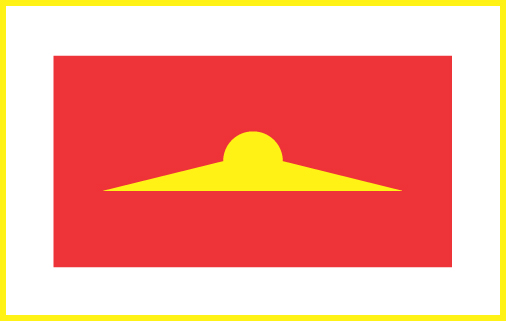 corporate logo of the Dhammakaya Foundation